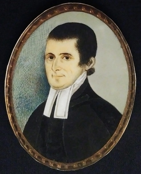 Rev. Gershom Mendes Seixas, c. 1784